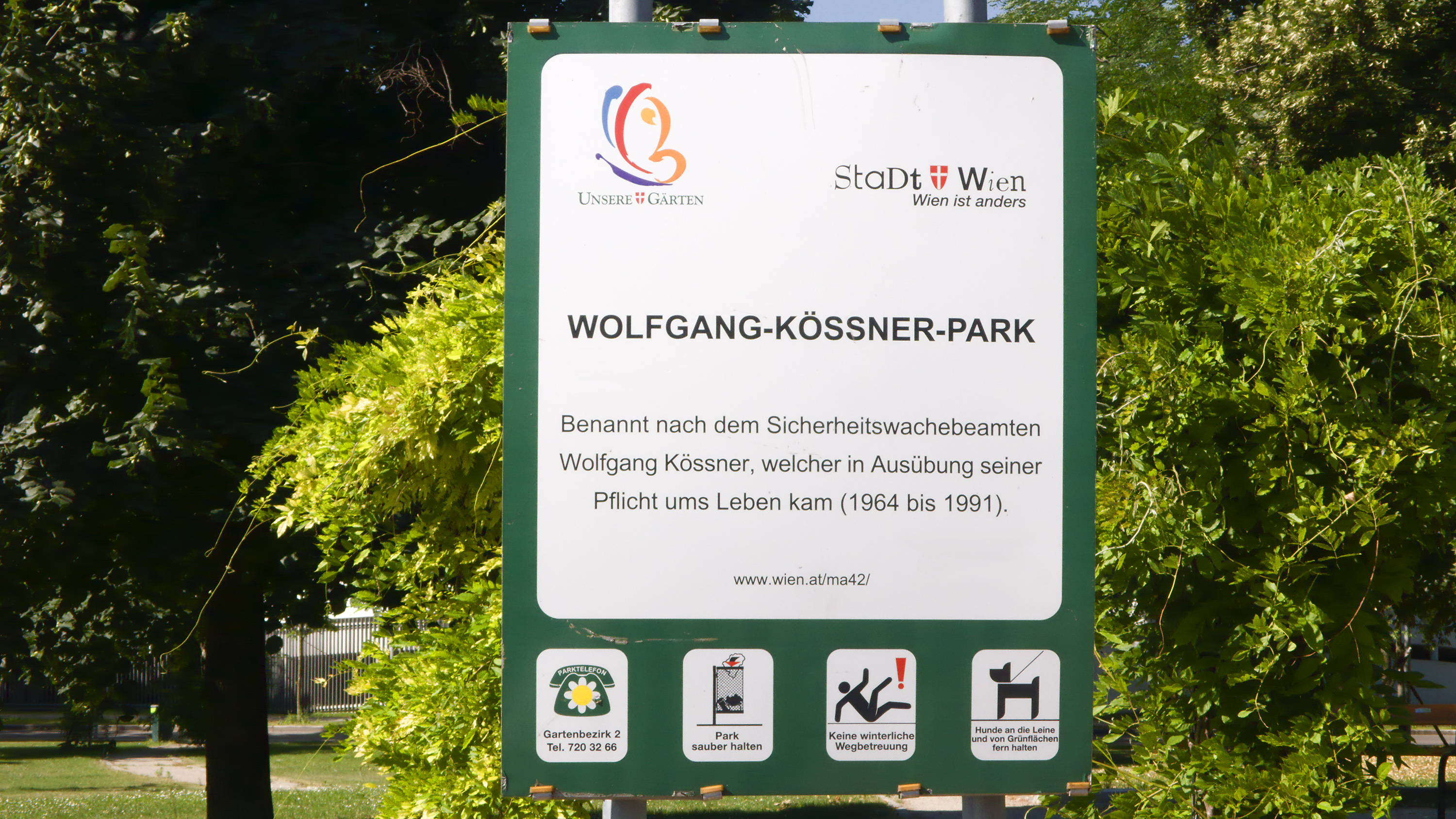 Wolfgang-Kössner-Park in Vienna Leopoldstadt